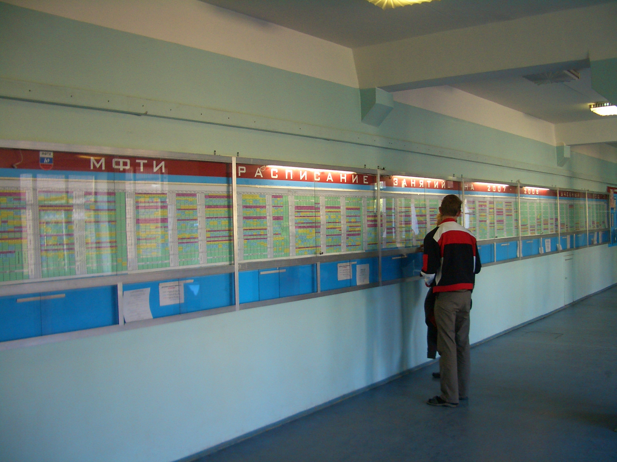 In front of the class schedule board on the 2nd floor of the "Main Building" of the MIPT campus.